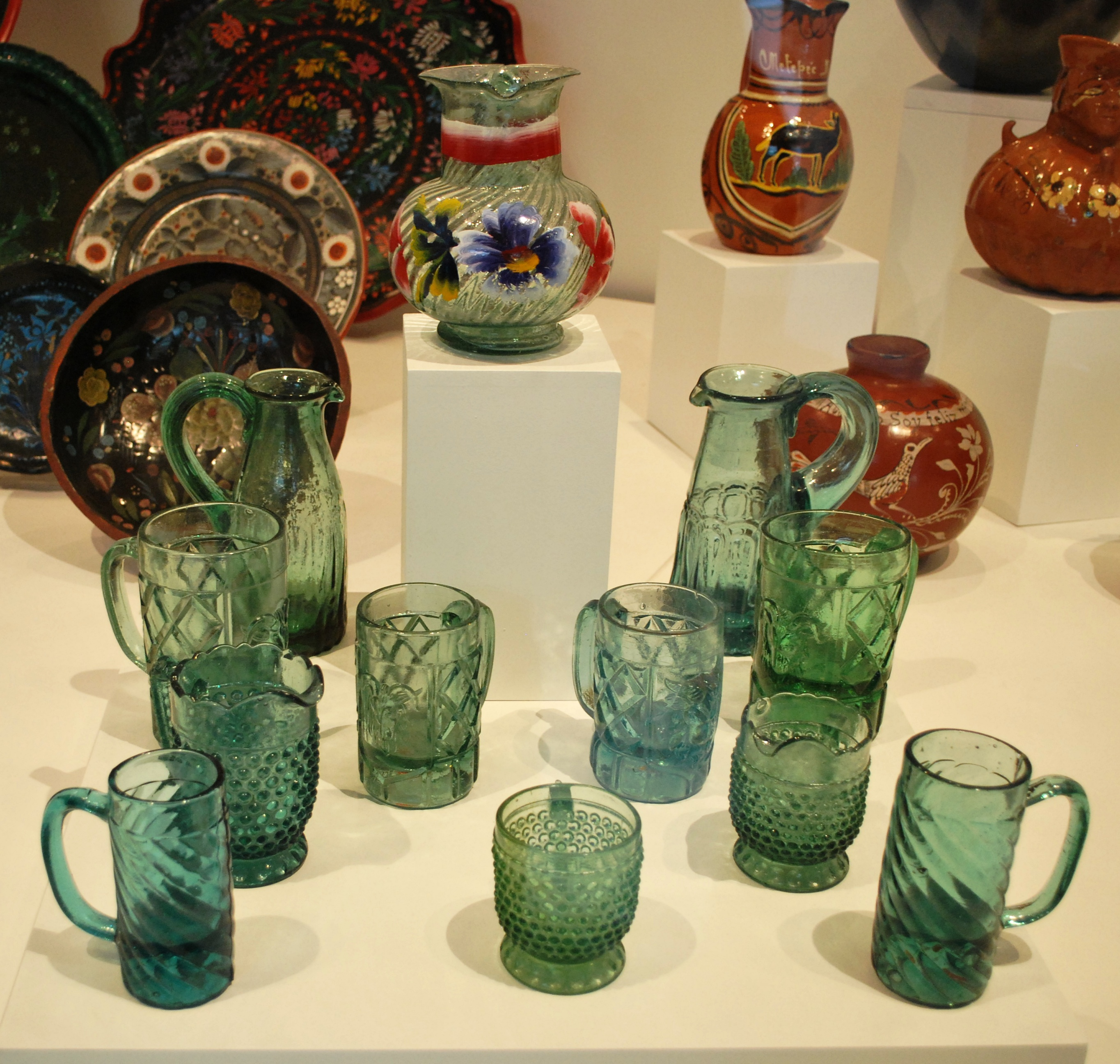 Green glassware associated with pulque-drinking with names such as chivos, cacarizas, tornillos and copiosas, circa 1950. On display at the Museum of Artes Populares in Mexico City